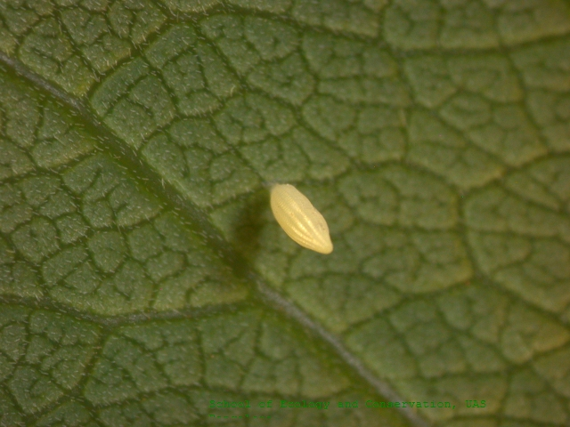 Egg of Emigrant Catopsilia crocale